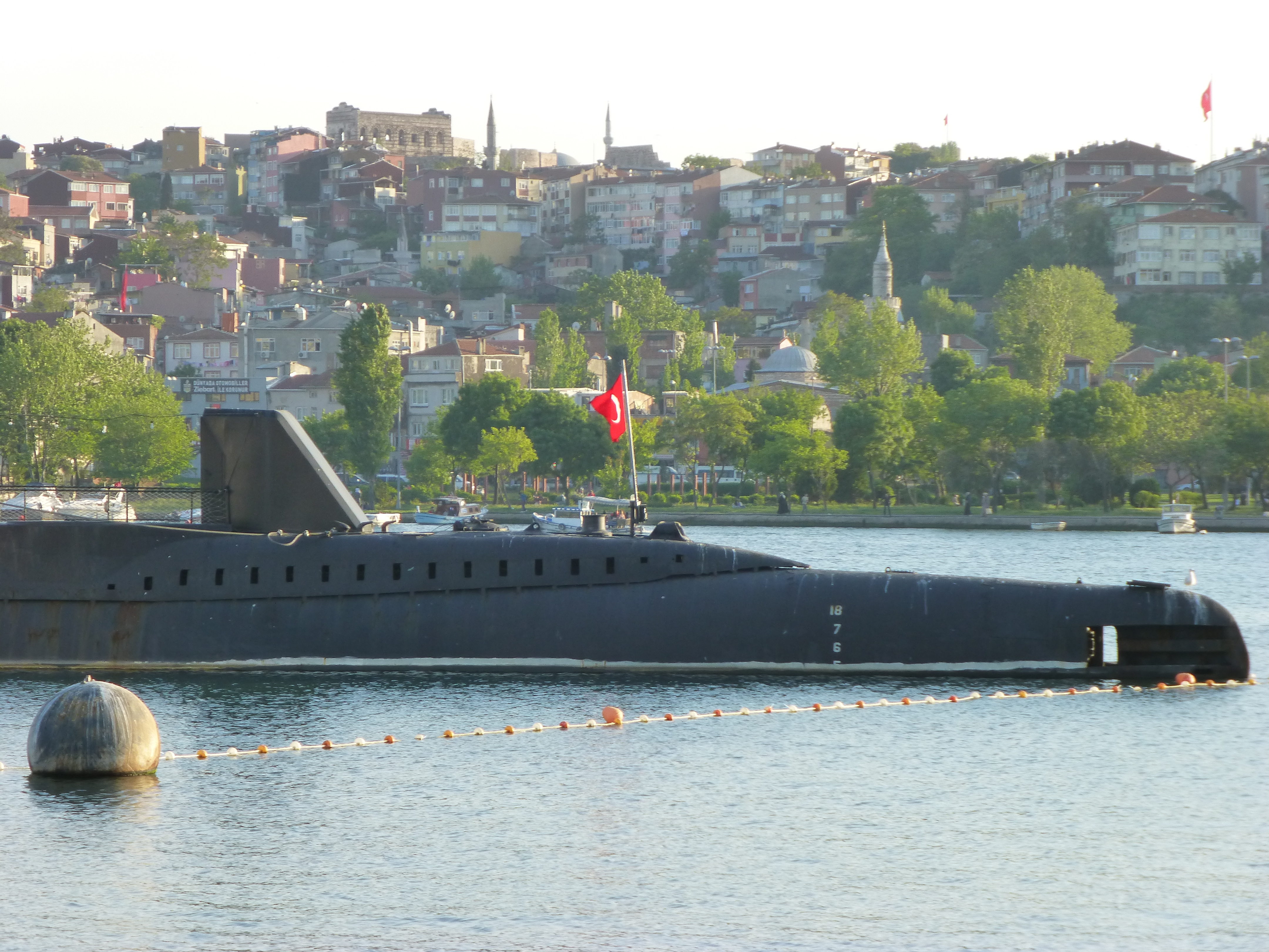 Rahmi M. Koç Museum